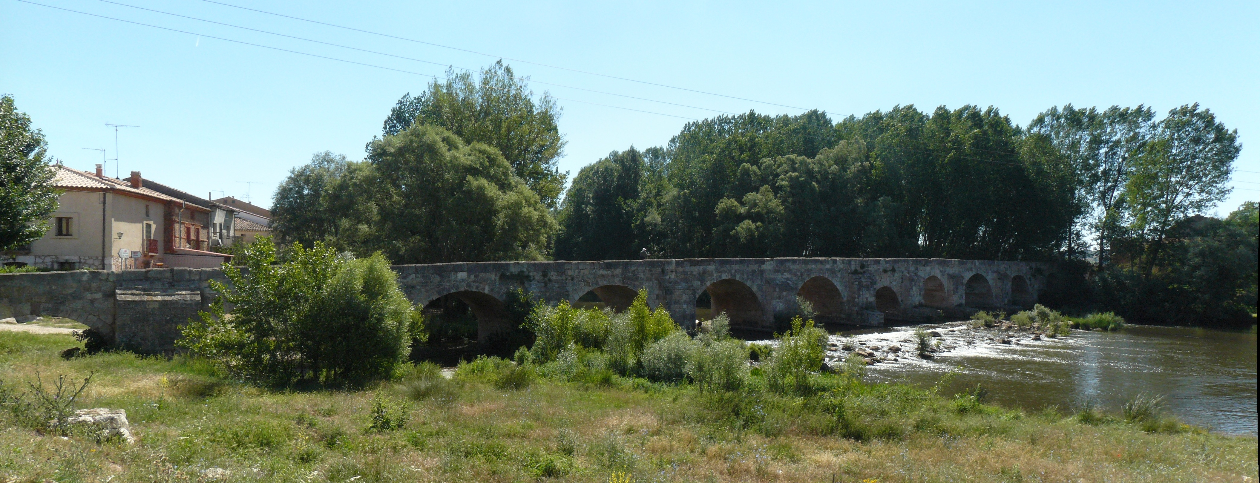 Bridge over the Arlanza river at Tordómar, Burgos. One arch is from Roman times.